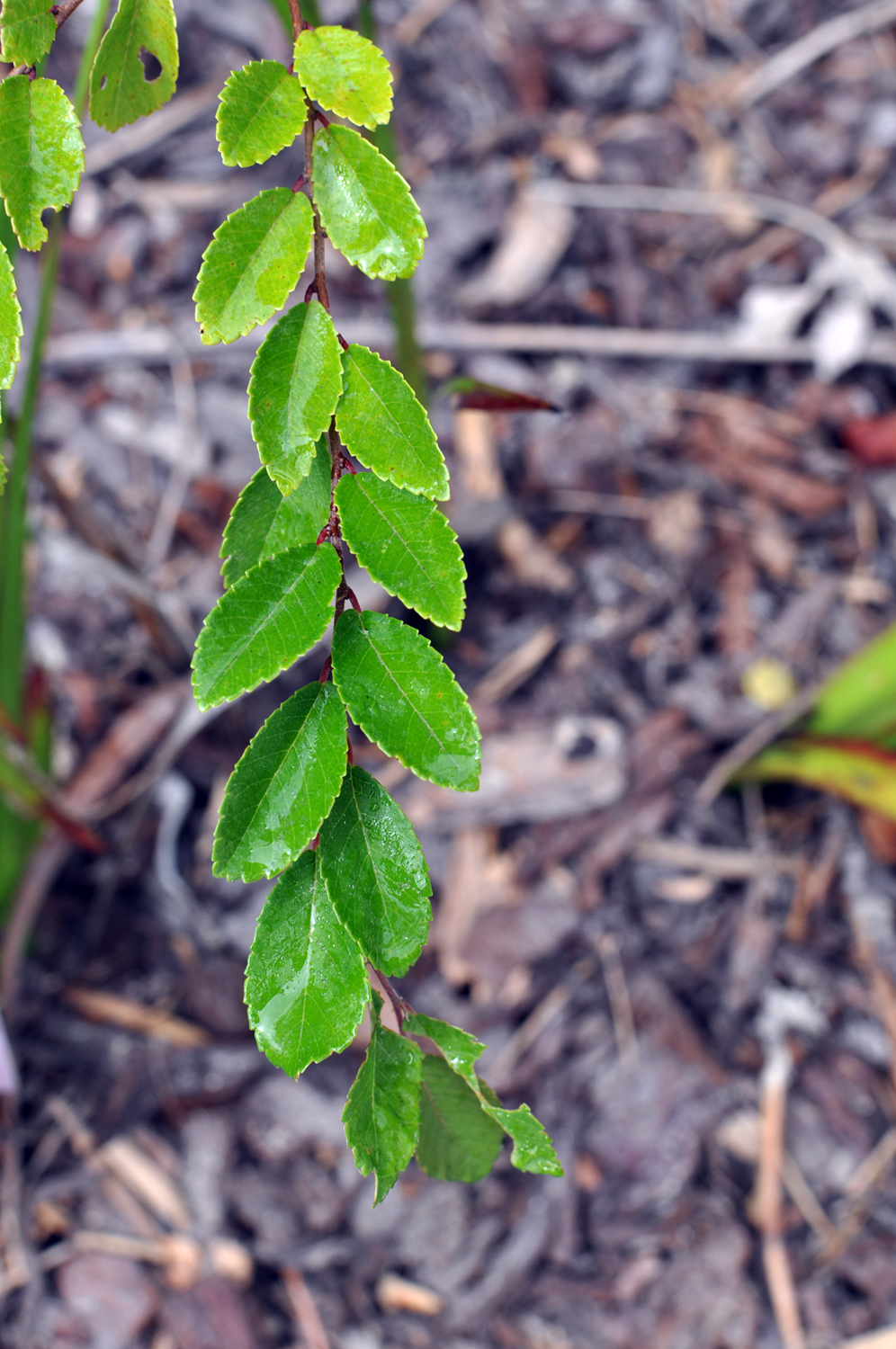 Zelkova sicula Conservatoire botanique national de Brest Native nameConservatoire botanique national de BrestLocationBrest, FranceCoordinates48° 24′ 10.35″ N, 4° 26′ 53.58″ W Established1975: established, 1978: opened to publicWeb page Authority control : Q2994486 VIAF: 135879850 ISNI: 0000 0000 9261 8684 LCCN: no95047958 WorldCat institution QS:P195,Q2994486